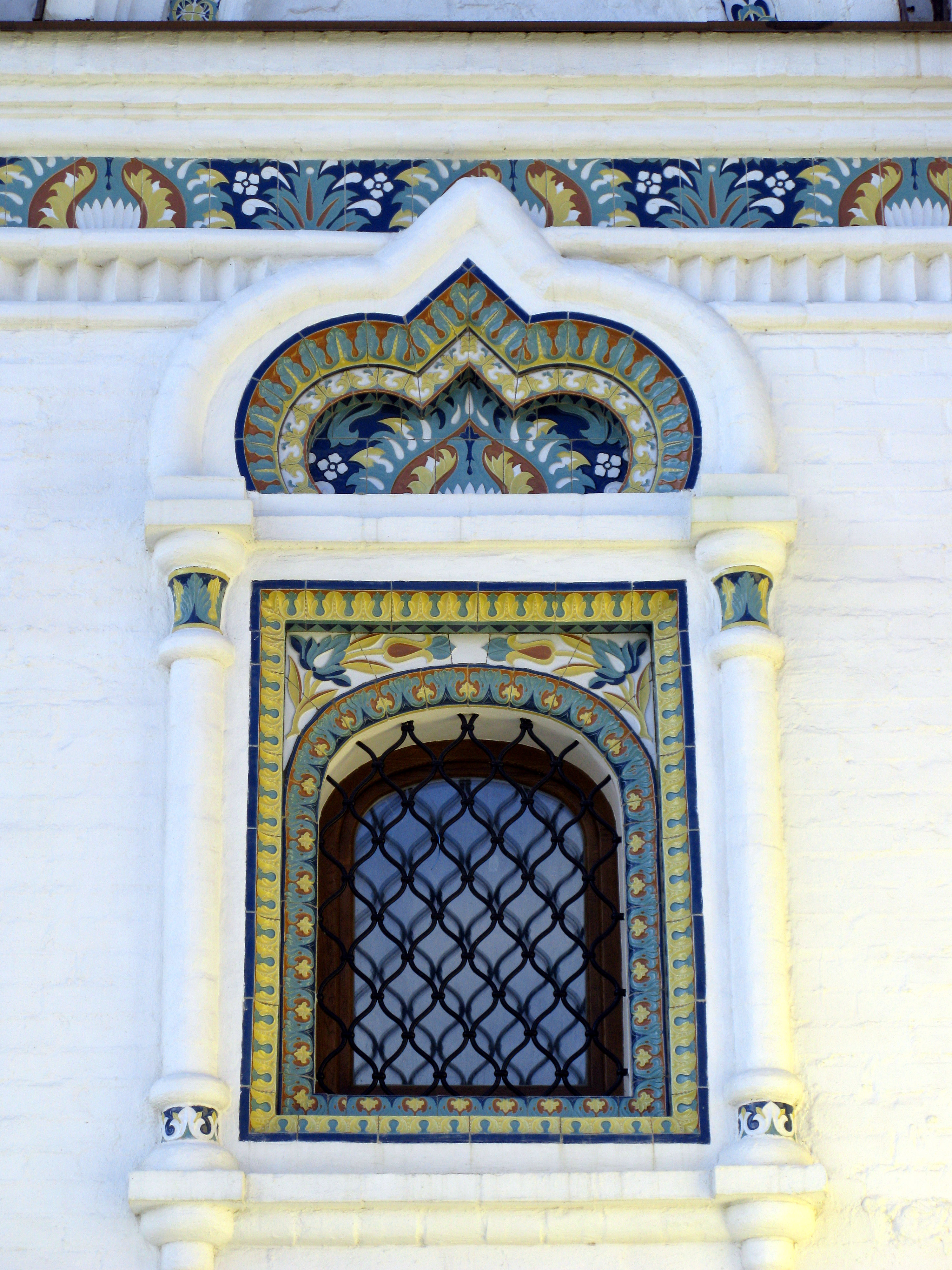 Old Believers church of Saint Michael ( Moscow Oblast, Ramensky District, Mikhailovskaya Sloboda)